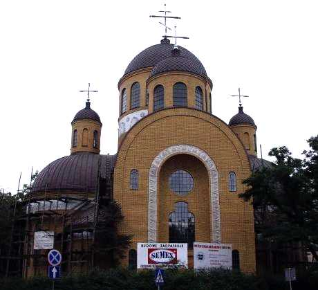 Orthodox church in Częstochowa. Photo taken in early 2000s.